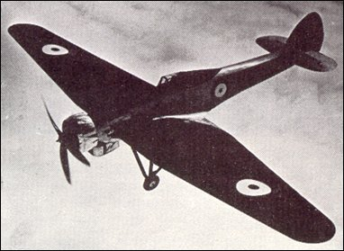 Original photograph taken by an employee of the British government. Image found on: avia.russian.ee/air/ england/a_bristol.html